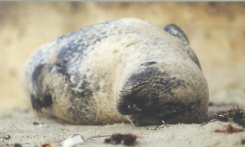 California Harbor Seal Phoca vitulina richardsi Children's Cove; La Jolla, California, USA Taken 10 June 1995 by D.-R. D. Luria